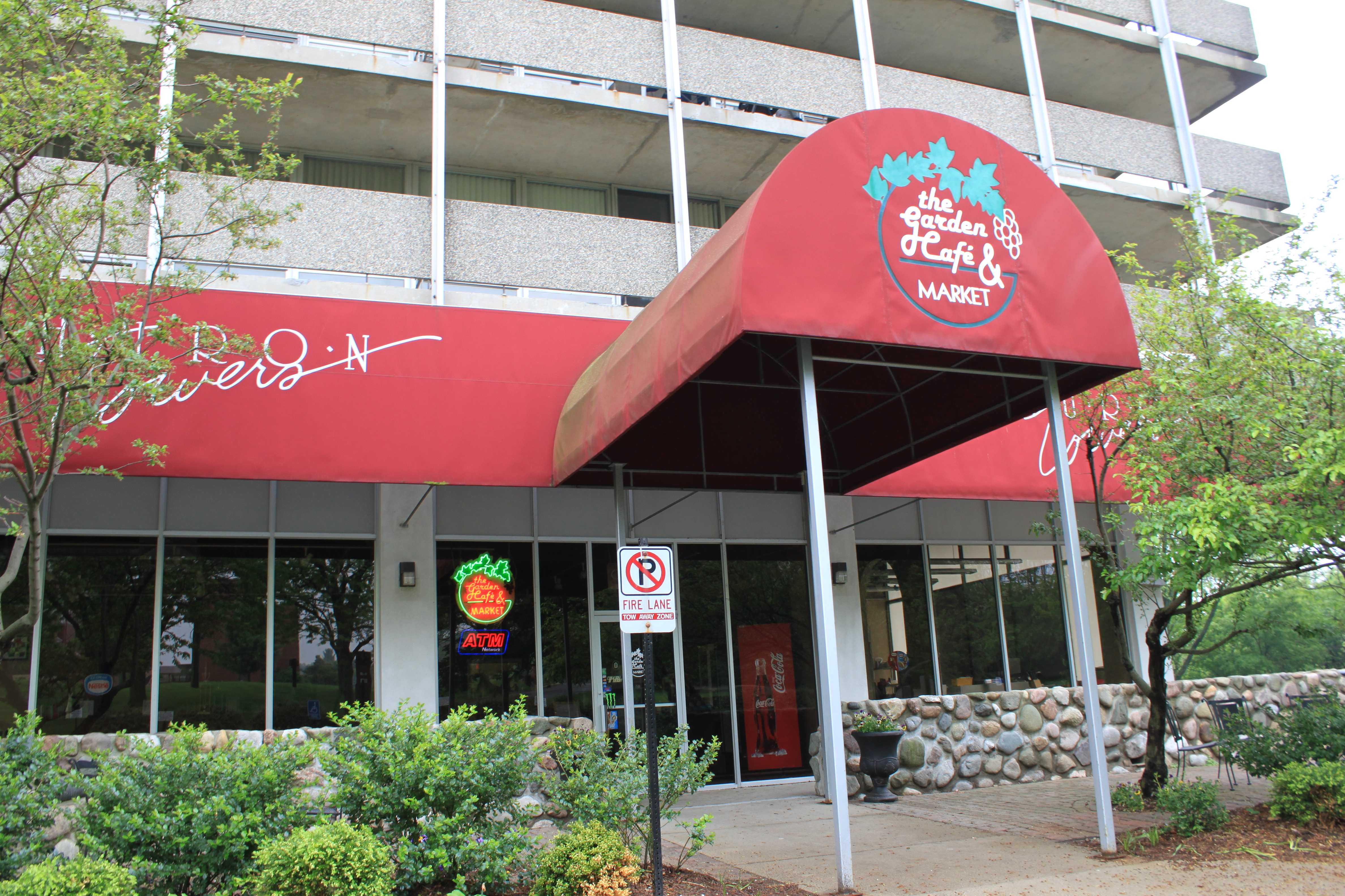 Huron Towers commercial space, 2200 Fuller Ct., Ann Arbor, Michigan